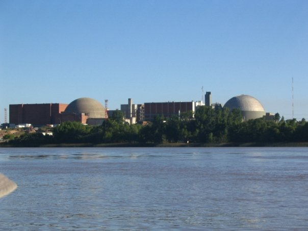 Atucha Nuclear Plant, as seen from the Parana River (Buenos Aires, Argentina)